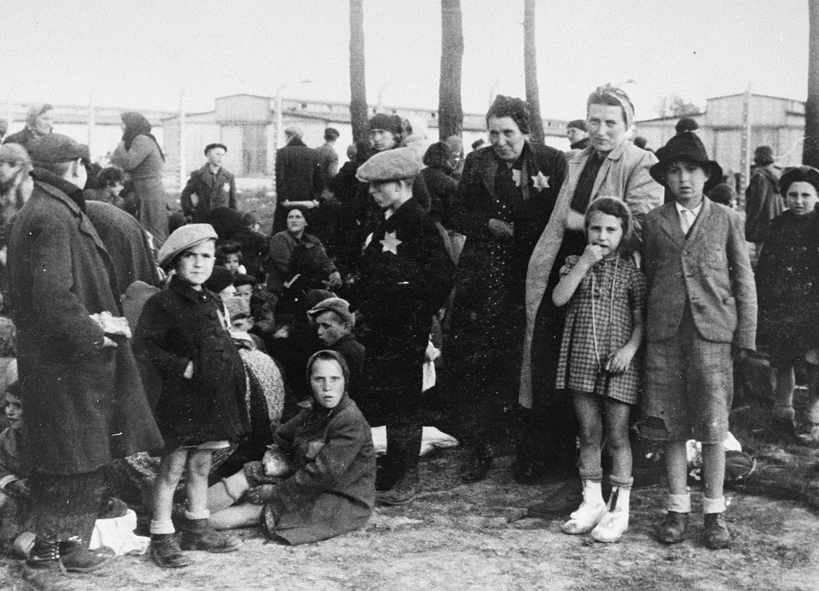 Birkenau, Poland, May 1944, Jewish women and children waiting in a grove near gas chamber no. 4 prior to their extermination. Photographs documenting the arrival process of Hungarian Jews from the Tet Ghetto in Auschwitz-Birkenau extermination camp during the second half of 1944.